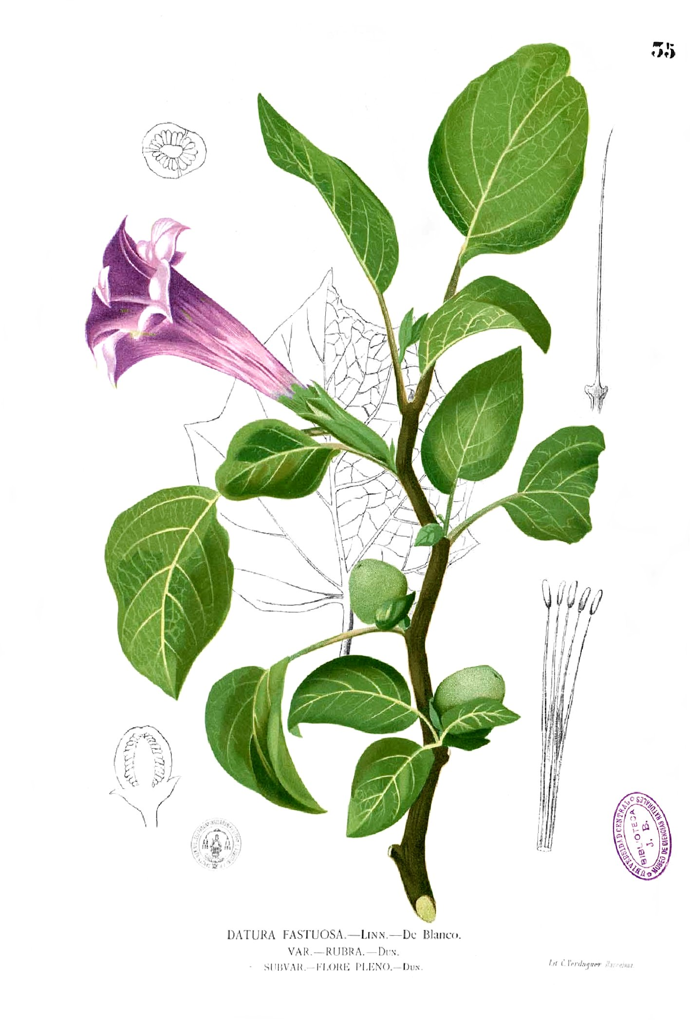 Plate from book